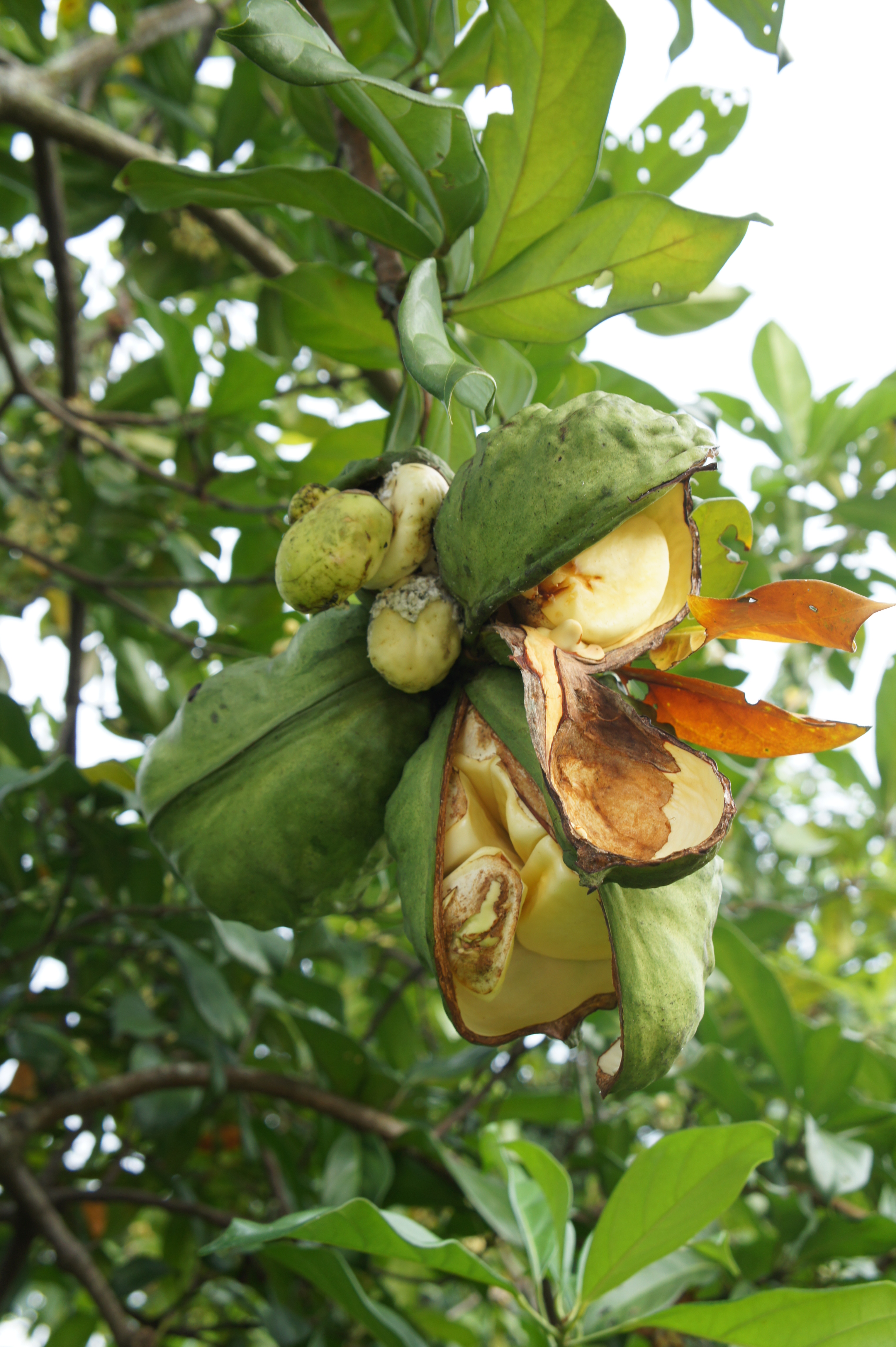 Cola nitida. Location: Serdang, Selangor, Malaysia